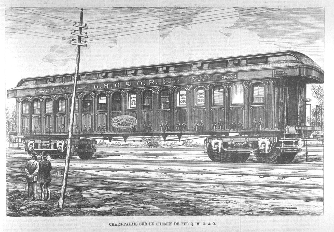 Palace car of the Quebec, Montreal, Ottawa and Occidental Railway. Cropped and lightened by the uploader.